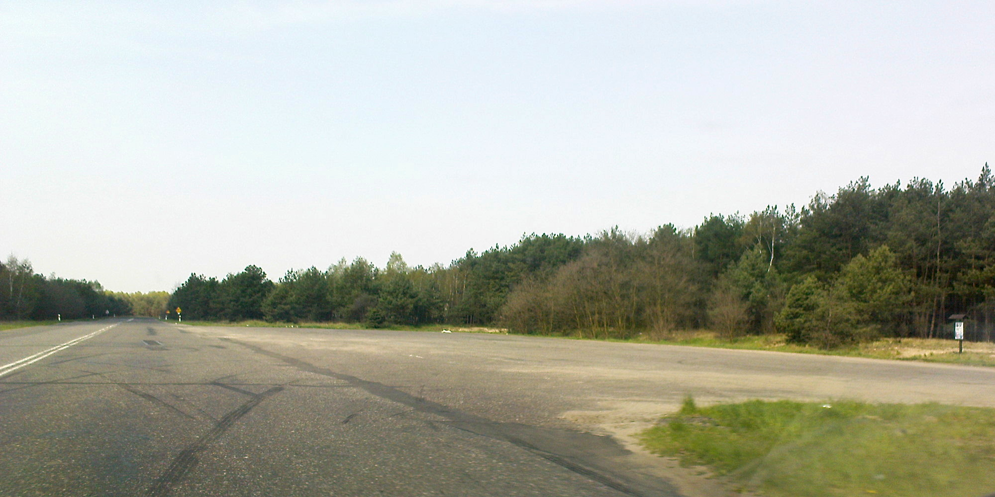 highway #710 strip near Rossoszyca in Poland 51°42'N, 18°43'E